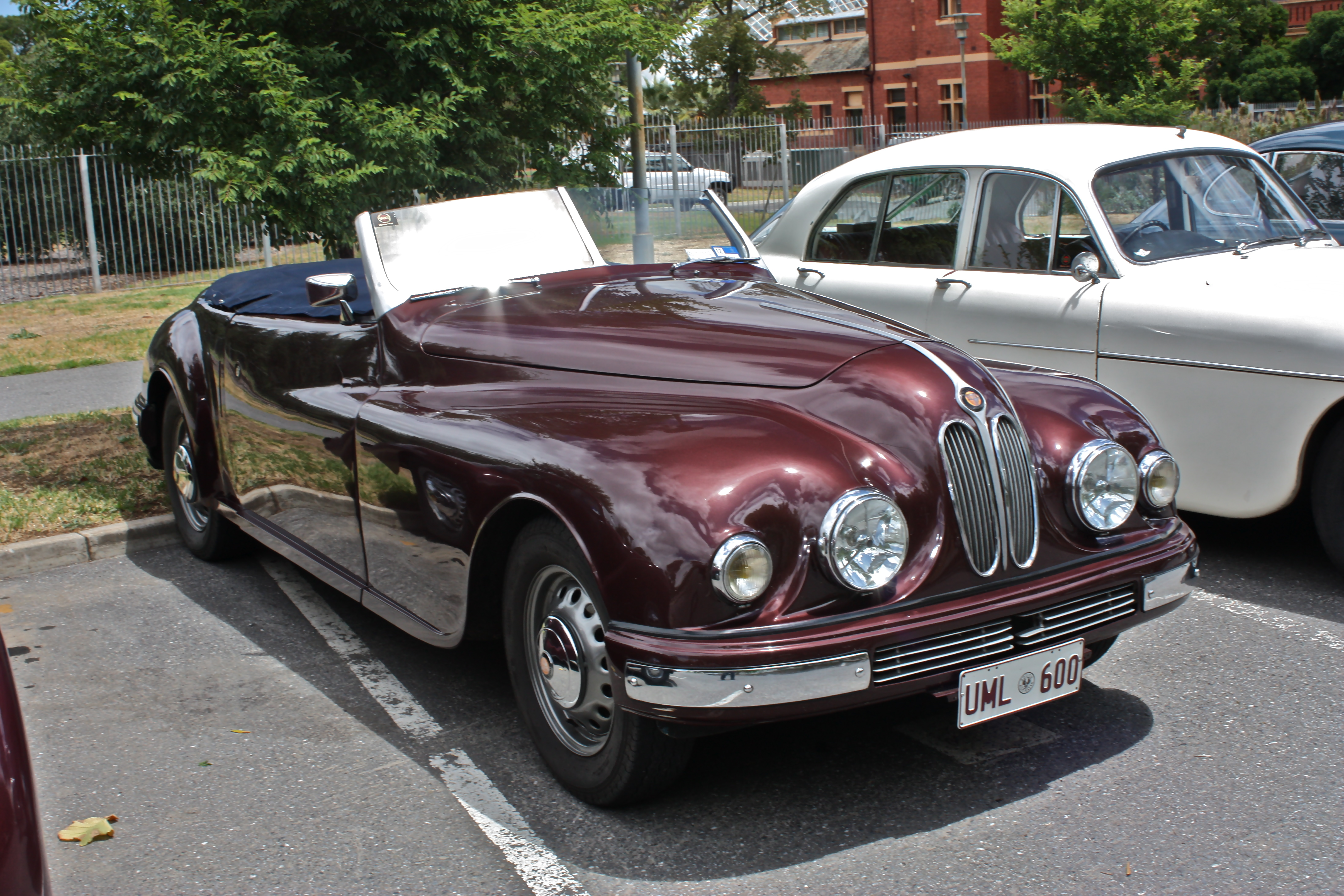 Bristol 400 droptop at the Adelaide Botanic Gardens.